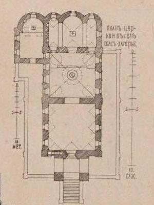 The plan of the church in the village of Spas-Zagorje